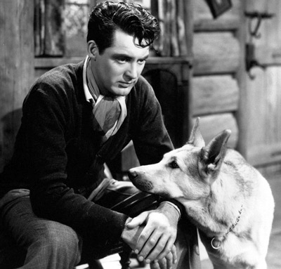 Promotional photograph from the 1935 film Wings in the Dark